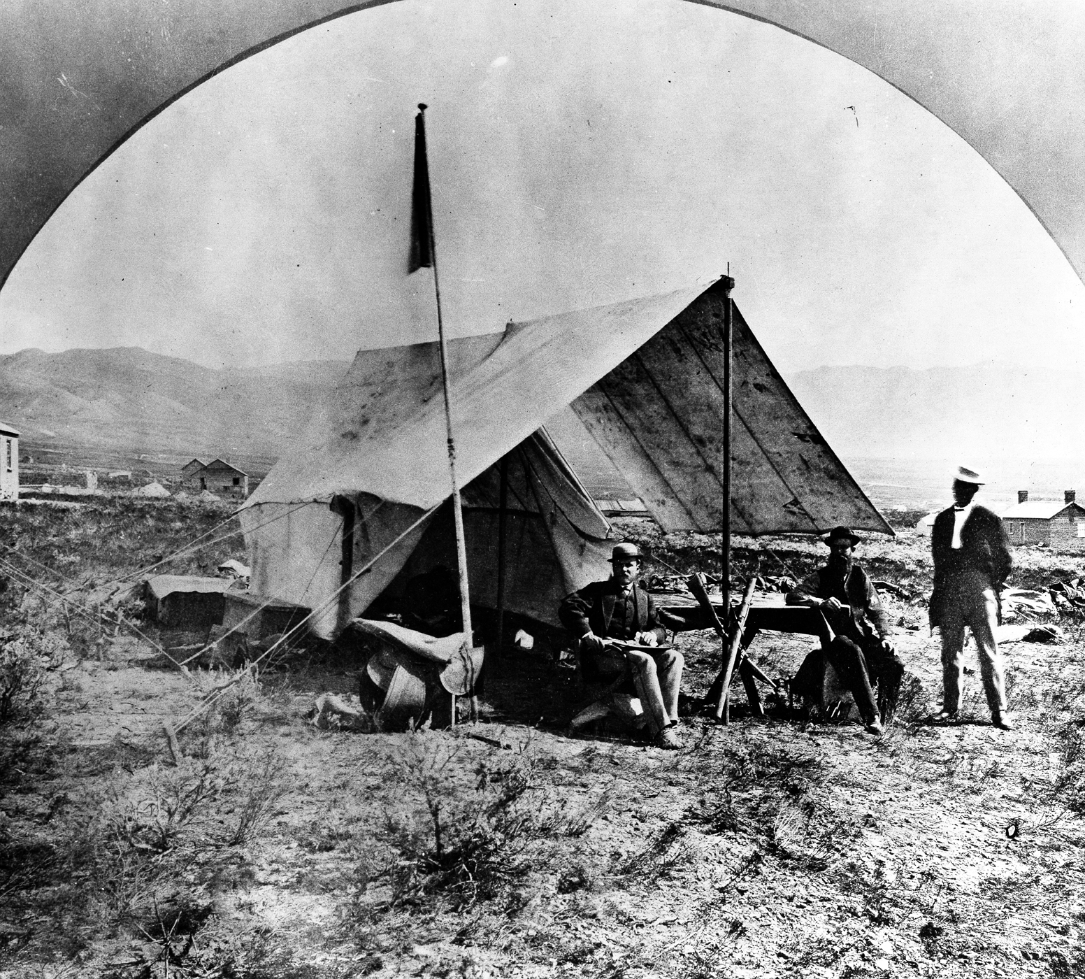 Clarence King in camp near Salt Lake City, Utah. Photo by Timothy H. O'Sullivan, October 1868. U.S. Geological Exploration of the Fortieth Parallel (King Survey).